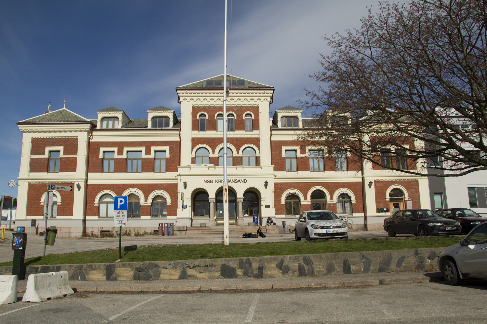 Kristiansand railway station